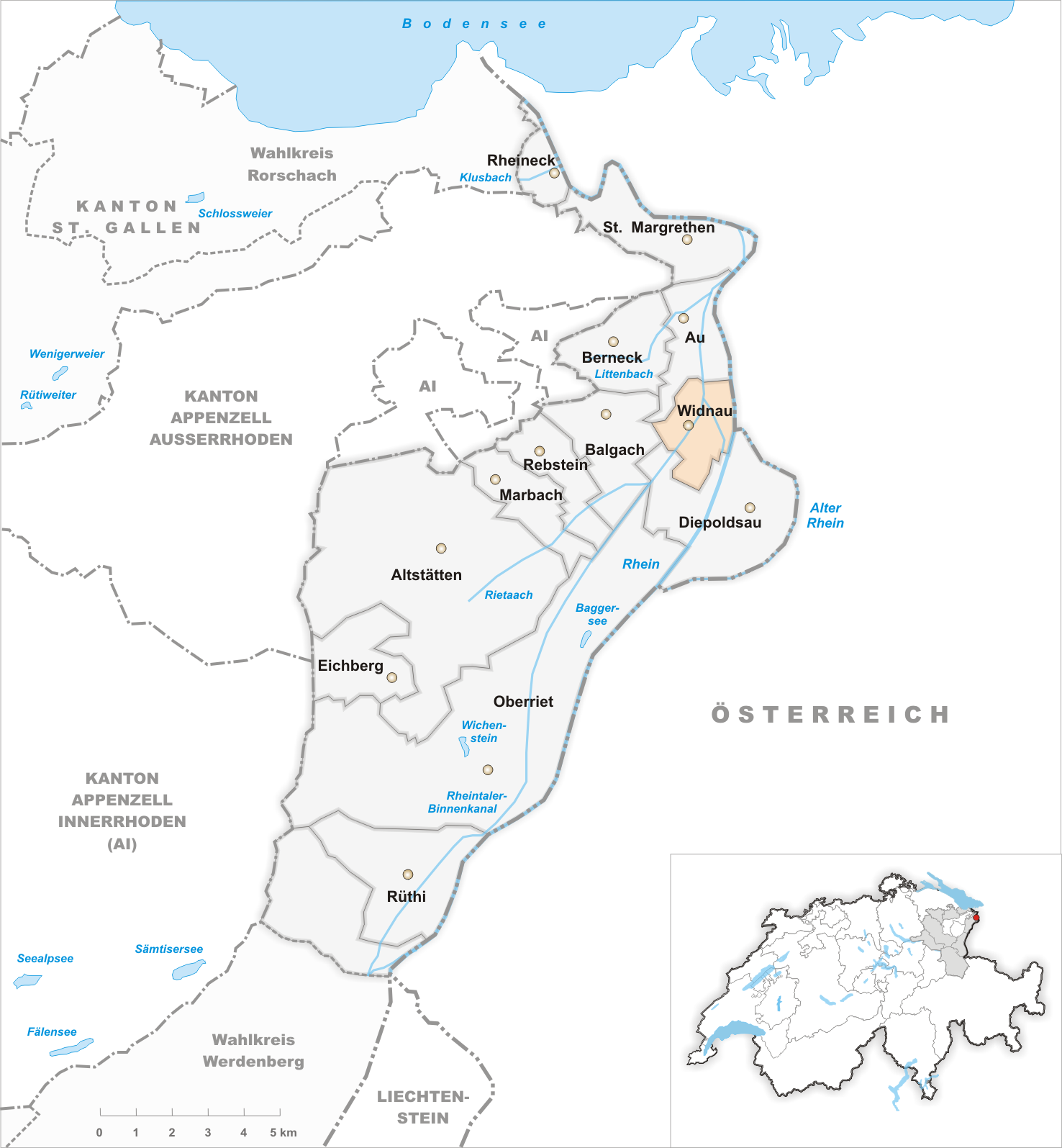 Municipality Widnau